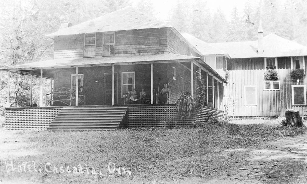 Original Collection: Gerald W. Williams Collection Item Number: WilliamsG:Santiam Cascadia hotel Restrictions: Please contact the OSU Archives for permissions forms or information on how to cite our collections. Click here to view our digital collections. You can find this image by searching for the item number. Click here to view Oregon State University's other digital collections. We're happy for you to share this digital image within the spirit of The Commons; however, certain restrictions on high quality reproductions of the original physical version may apply. To read more about what “no known restrictions” means, please visit the OSU Archives website.